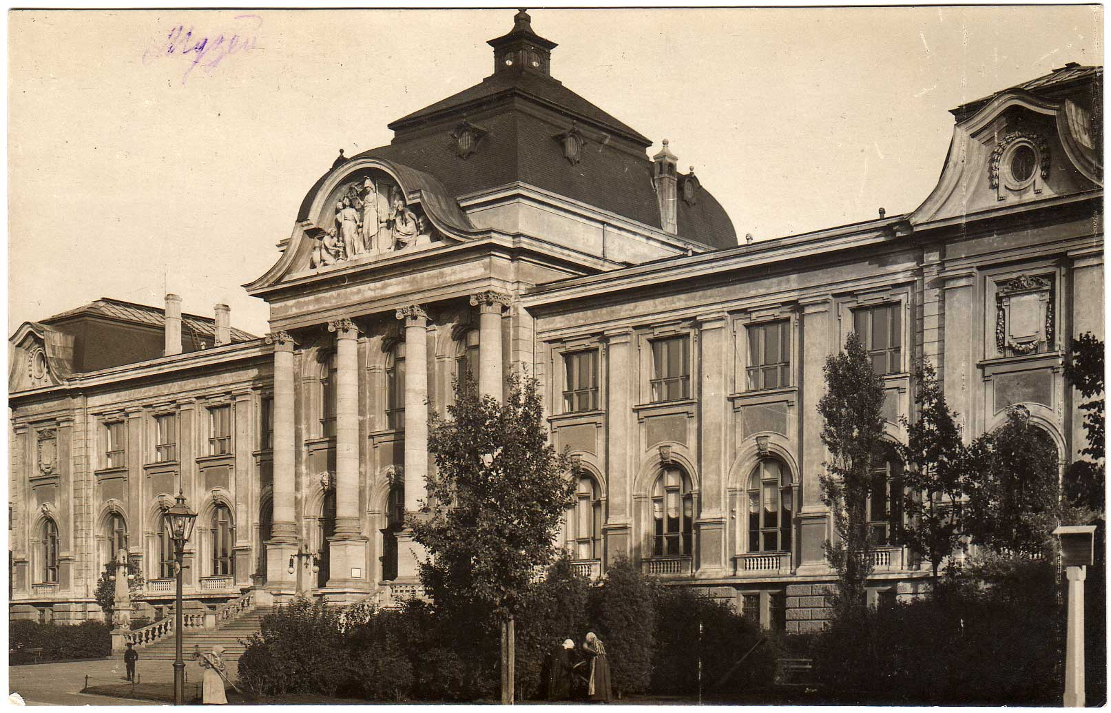 Latvian National Museum of Art